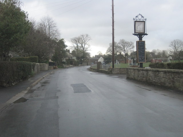 Burgh by Sands by The Greyhound Inn